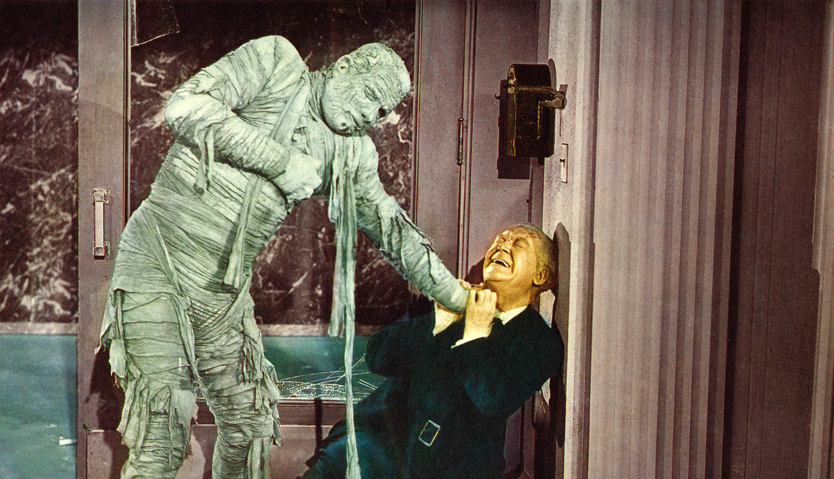 Cropped and edited lobby card for the 1944 film The Mummy's Ghost, featuring Lon Chaney Jr. This image is assumed to be in the public domain, as no copyright notice is in evidence.